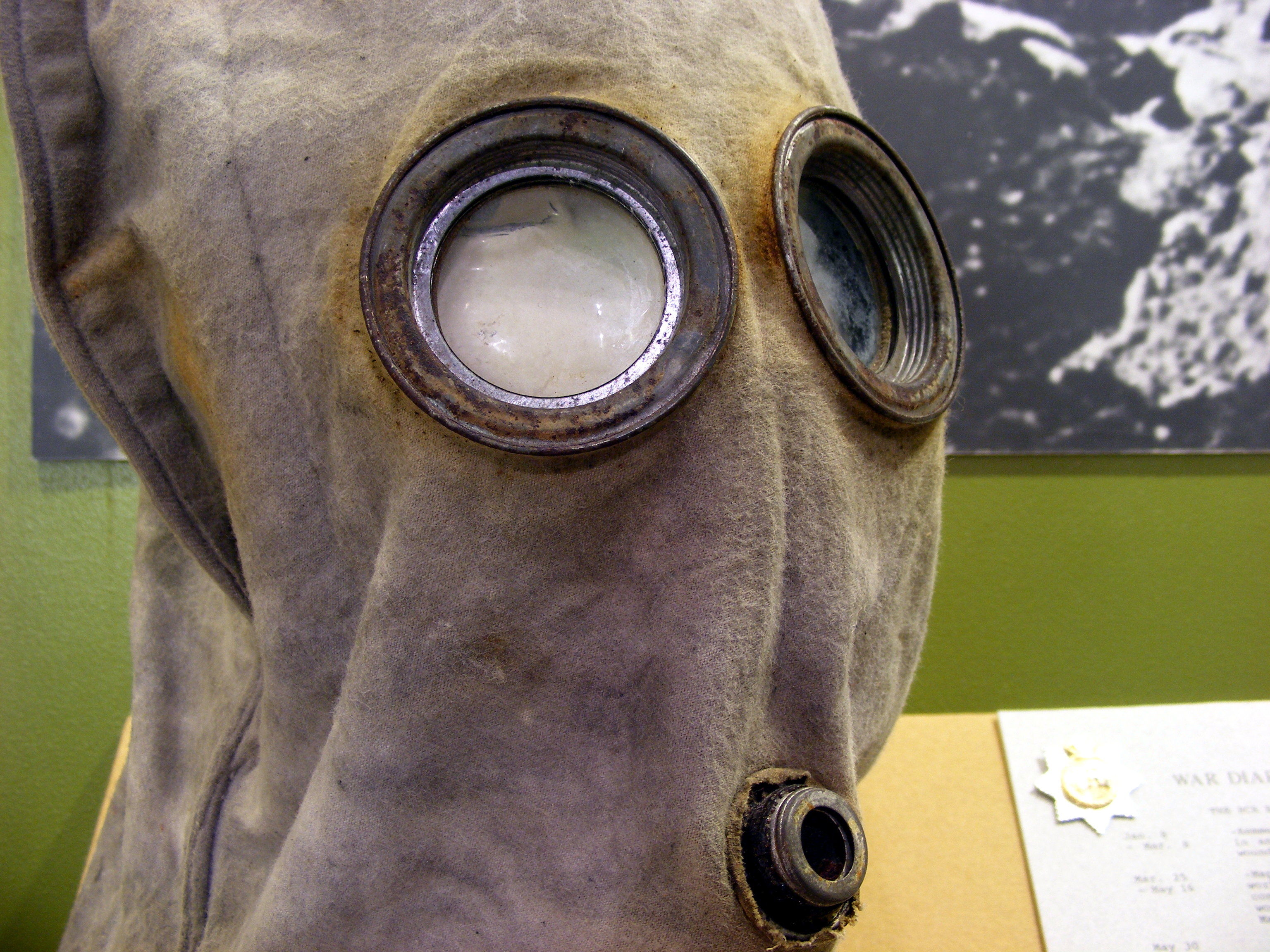 British gas mask from 1915 (P Helmet /PH Helmet), displayed in Royal Canadian Regiment Museum in London, Ontario. Photo taken on April 27, 2008. Source: Photo by me, User:Balcer.